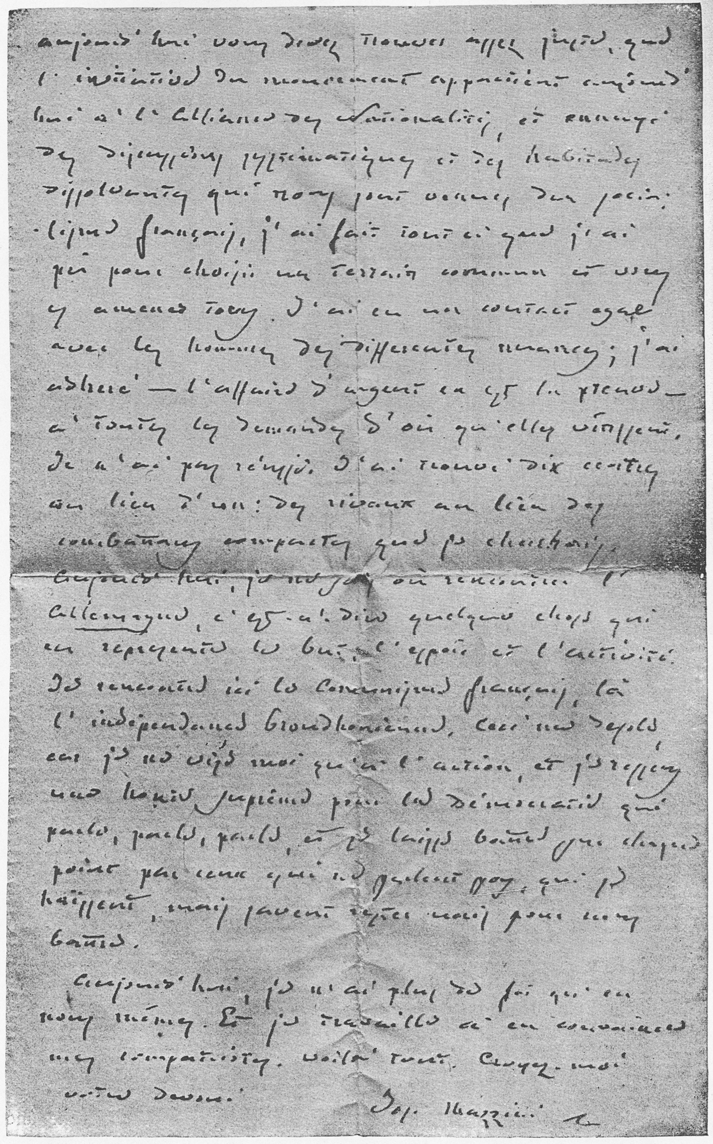 Facsimile of the last page of a letter written (in French) from Italian revolutionary Giuseppe Mazzini to German revolutionary Carl Schurz, both residing in London in 1851.